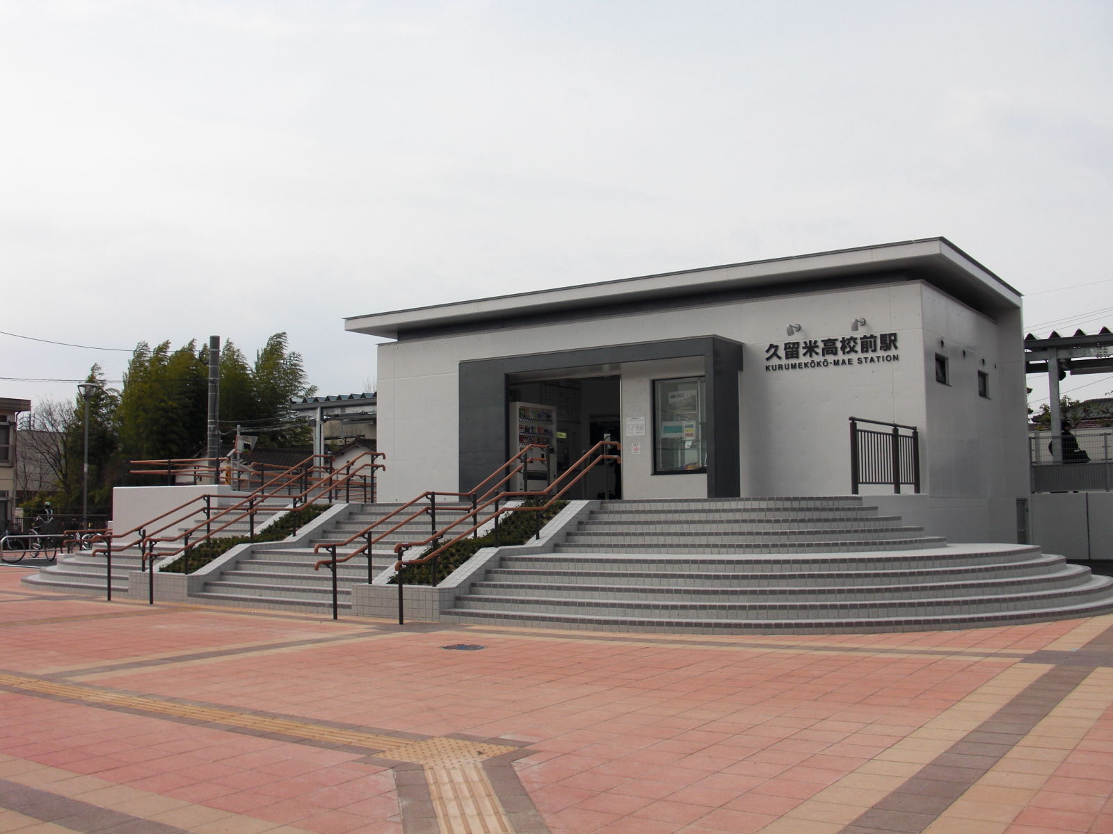 The building of Kurumekoko-mae station.